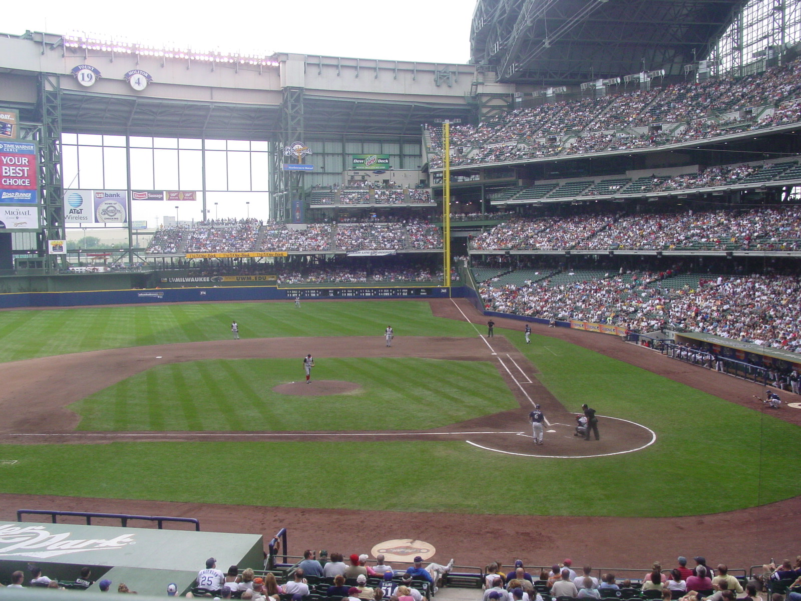 Taken by myself, Jeramey Jannene, during a Milwaukee Brewers game on the 5th of September last year. The game was against the Cincinnati Reds. Category:Images of Milwaukee, Wisconsin 00:22, 10 April 2005 Grassferry49 1600x1200 (523,700 bytes) (Taken by myself, Jeramey Jannene, during a Milwaukee Brewers game on the 5th of September last year. The game was against the Cinncinati Reds. Licensed under GFDL )